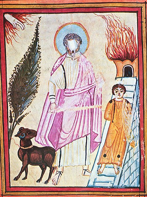 Ejmiadzin Gospel. Sacrifice of Abraham